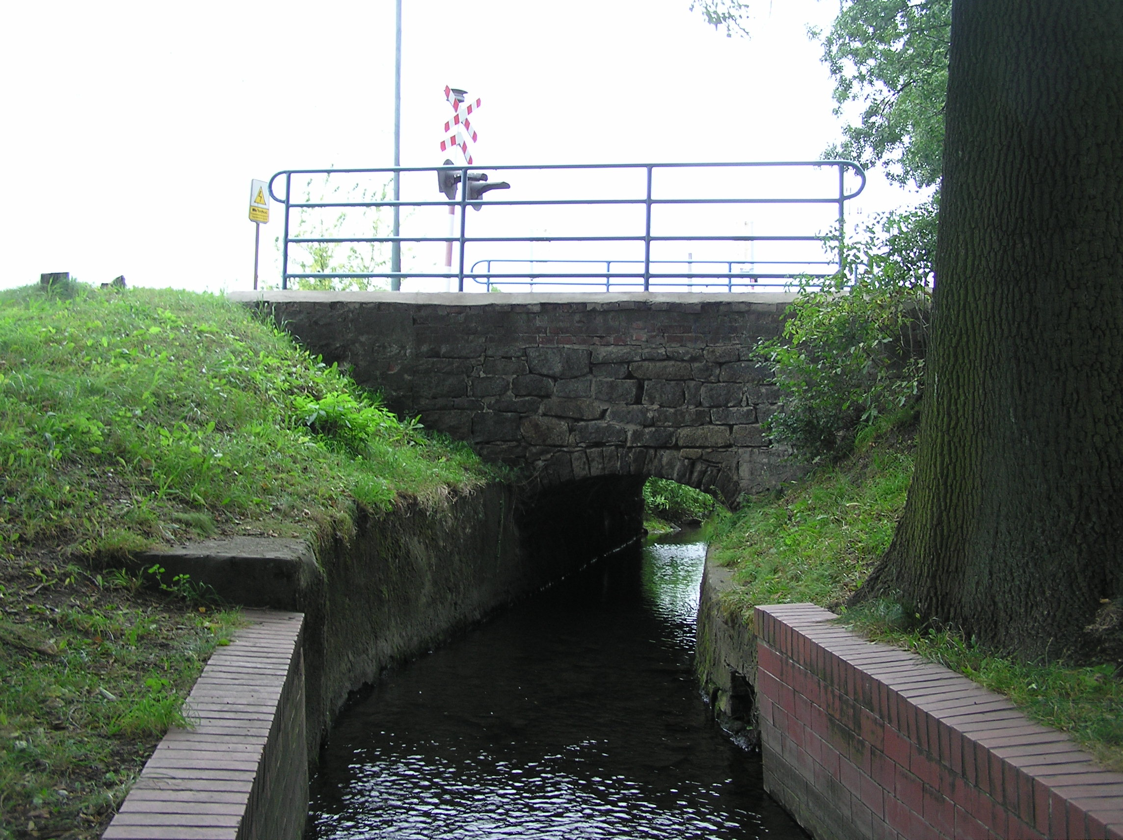 Poland, Wrocław, Brochowski Park, Brochówka River, Bridge - Centralna Street